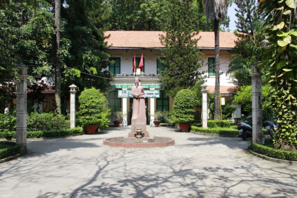 Tượng Lê Quý Đôn